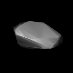 3D convex shape model of 1424 Sundmania, computed using light curve inversion techniques. J. Hanuš, J. Ďurech, M. Brož, B. D. Warner (June 2011). "A study of asteroid pole-latitude distribution based on an extended set of shape models derived by the lightcurve inversion method". Astronomy and Astrophysics 530: A134. ISSN 0004-6361. arXiv